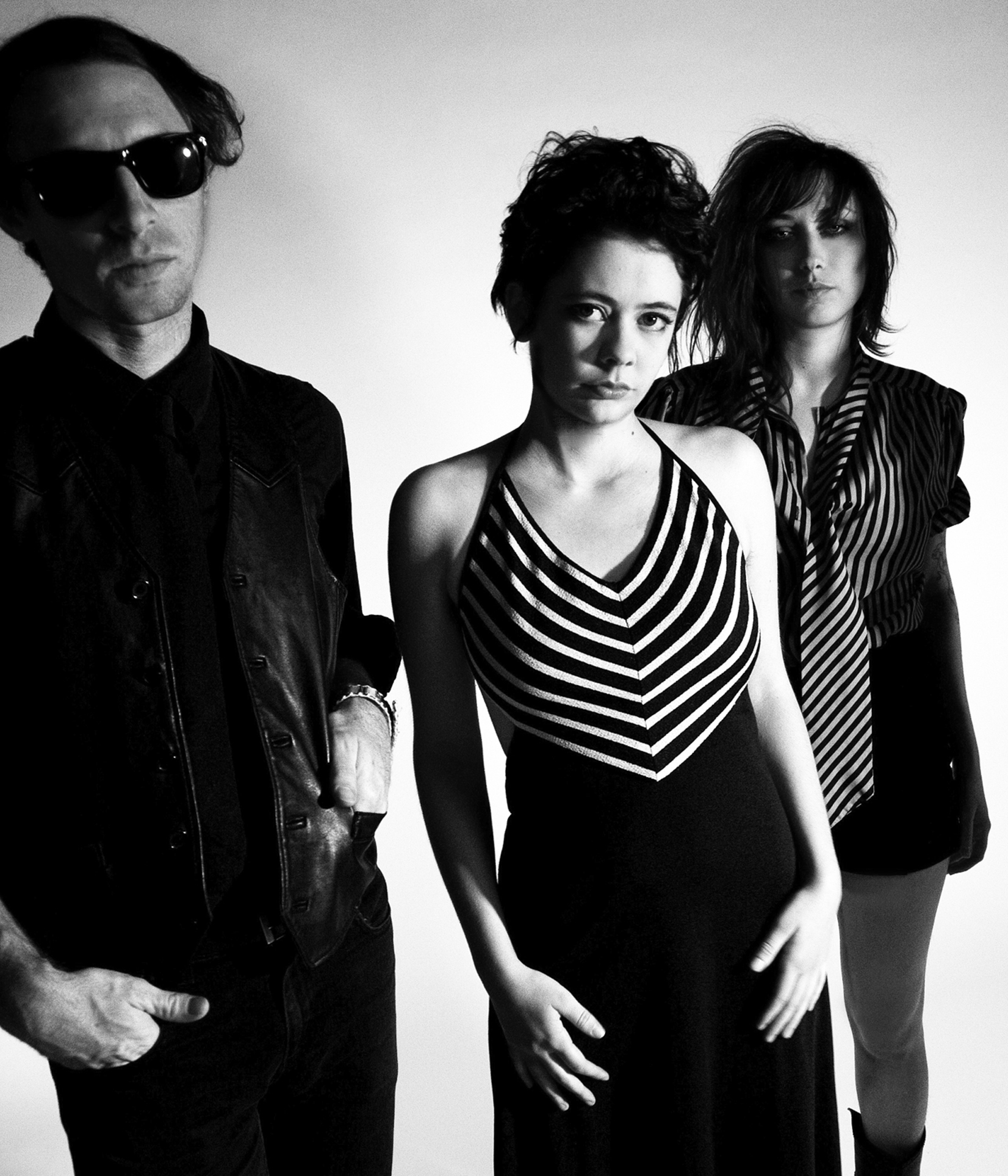 Nashville country/punk band Those Darlins